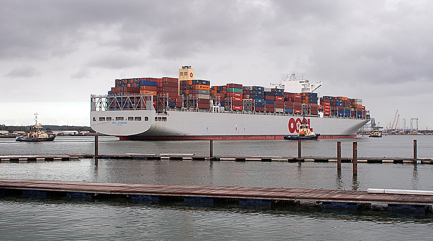 OOCL Chongqing entering Southampton shepherded by three Svitzer Marine tugs IMO: 9622629 Information about the vessel may be found at IMO 9622629.A ship can change name and flag state through time, but the IMO number remains the same through the hull's entire lifetime. As a result, it can be useful to identify a ship by using the IMO number.